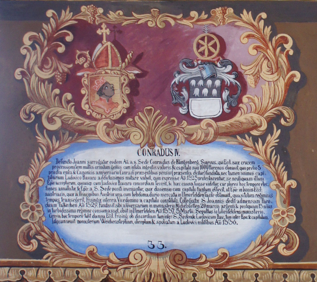 Wappentafel von Konrad IV. von Klingenberg, Fürstbischof von Freising, im Fürstengang zwischen Fürstbischöflicher Residenz und Freisinger Dom. Links das geistliche, rechts das persönliche Wappen, darunter ein lateinischer Text mit kurzer Biographie.